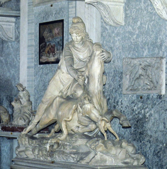 Photo taken by DanielCD in March of 2004. This is a "tauroctany" statue of Mithras slaying a bull. Statue is in the Hall of Animals, Vatican Museum, Rome. Restored by Vincenzo Pacetti and Francesco Antonio Franzoni (added head, cloak; r. foot, arms, hands and nose; the bull's muzzle, forelegs and tail, the r. hindleg with a part of the base; the dog and the serpent except a part on the base)[1]